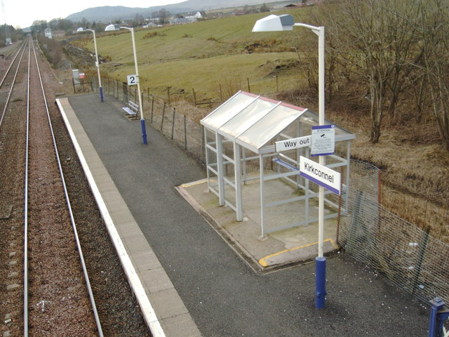 Southbound Side